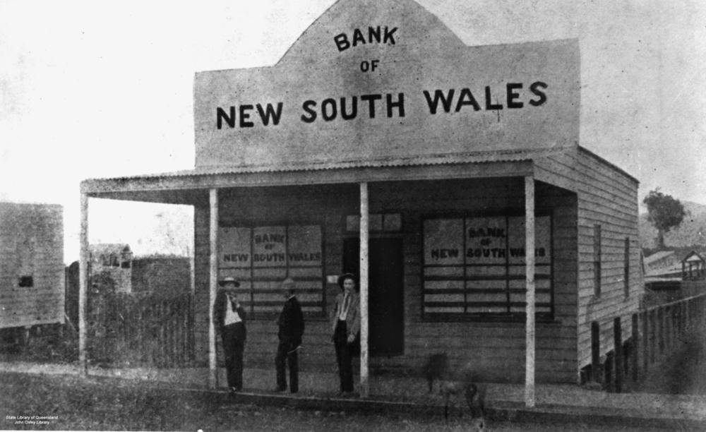 Bank of New South Wales, Port Douglas, Queensland, ca. 1890 Three men standing in front of the Bank of New South Wales at Port Douglas, around 1890. The office opened in 1878, and closed in 1896 (Description supplied with photograph).